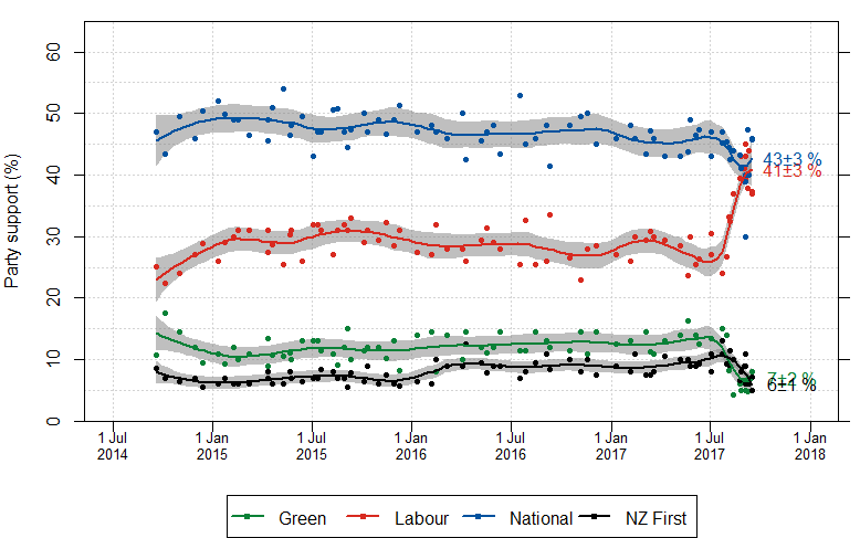 Graph showing support for political parties in New Zealand since the 2014 election, according to various political polls. Data is obtained from the Wikipedia page, Opinion polling for the Next New Zealand general election